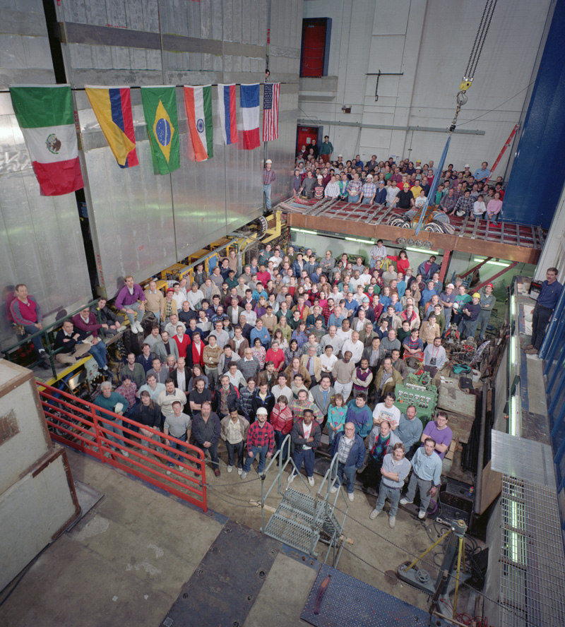 DZero Collaboration group photo taken on 02/14/1992